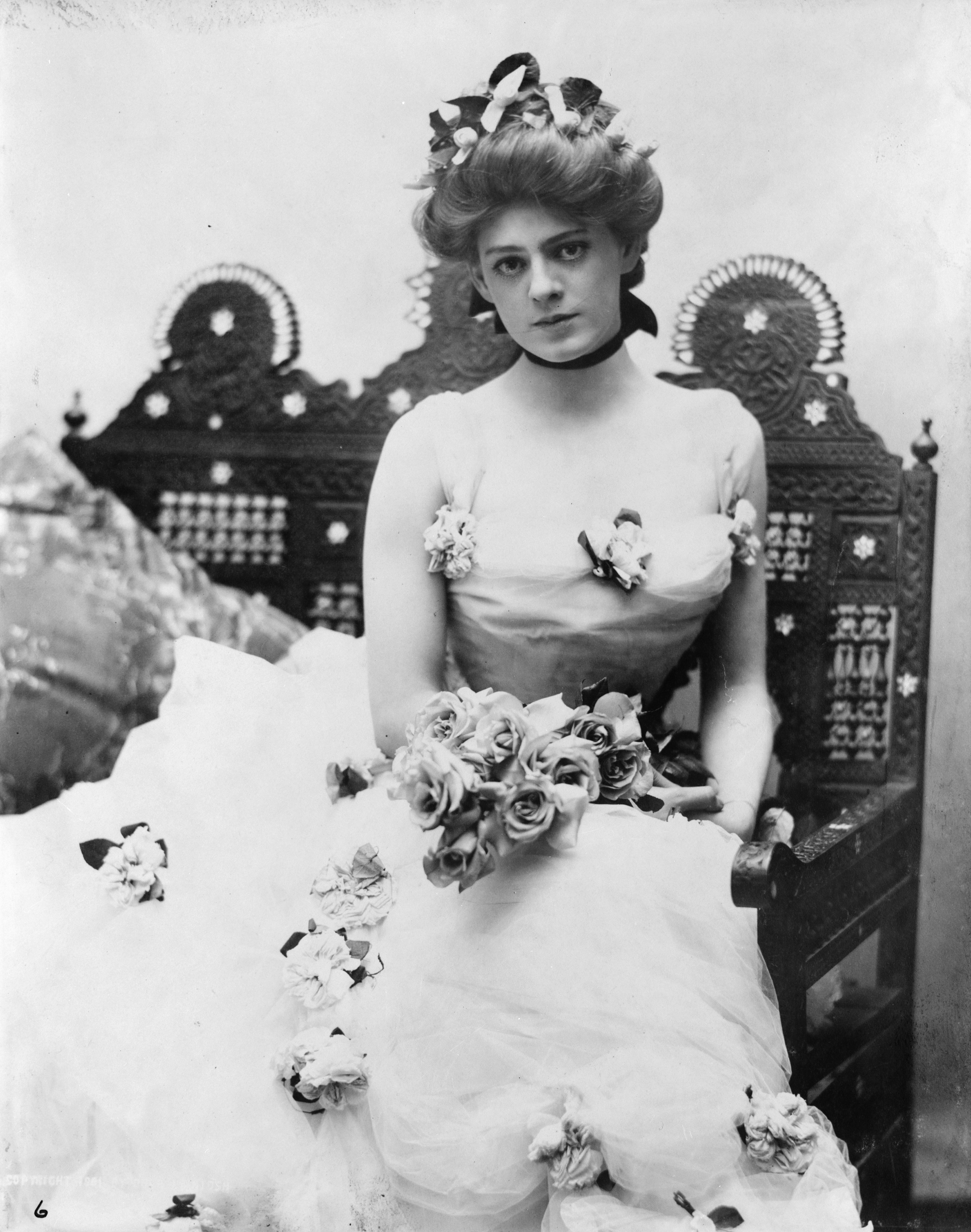 Ethel Barrymore, three-quarter length portrait, seated, facing front. Taken in 1901, for Captain Jinks of the Horse Marines